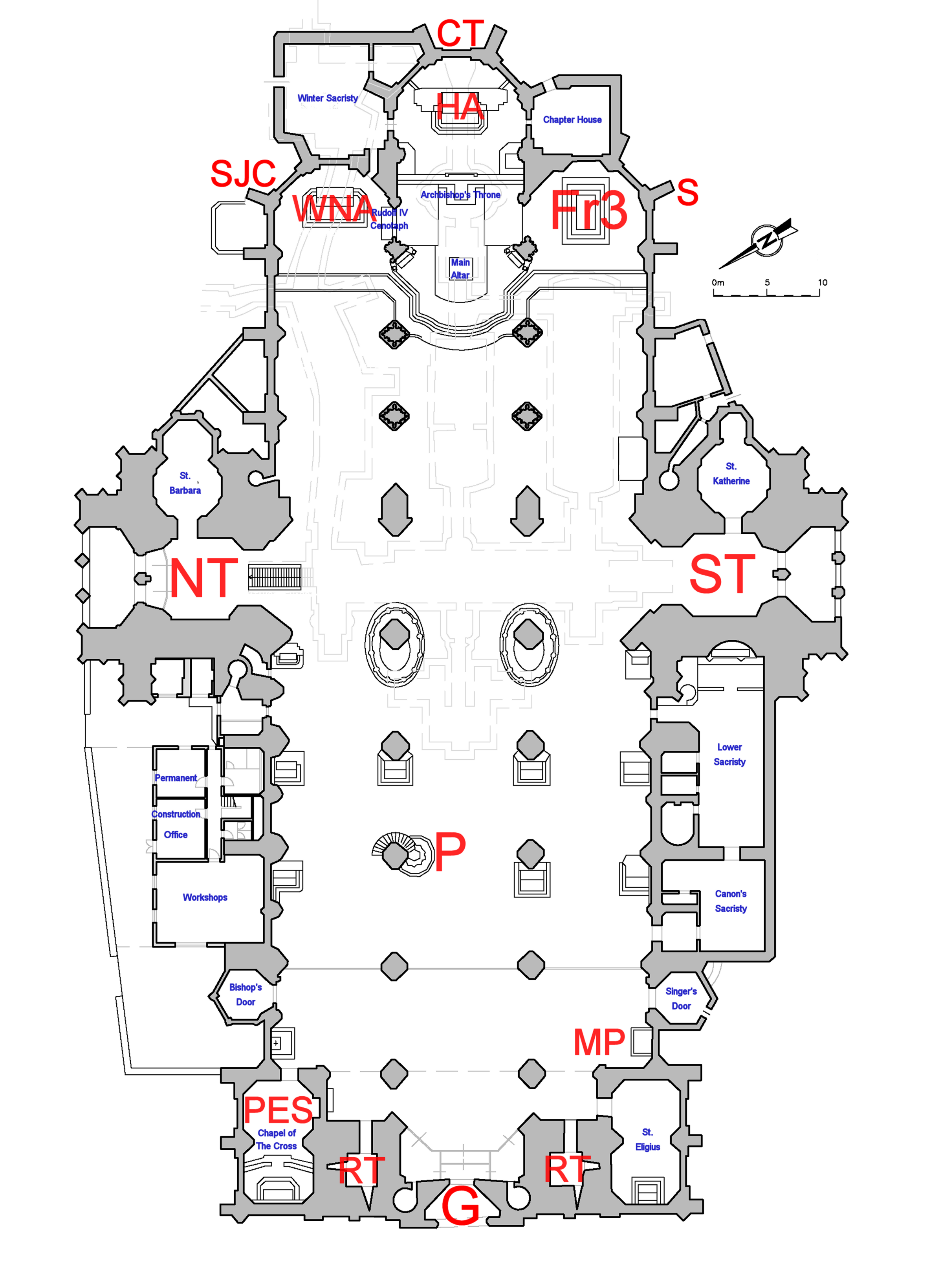 Floor plan of St. Stephans' Cathedral in Vienna, with significant features marked.